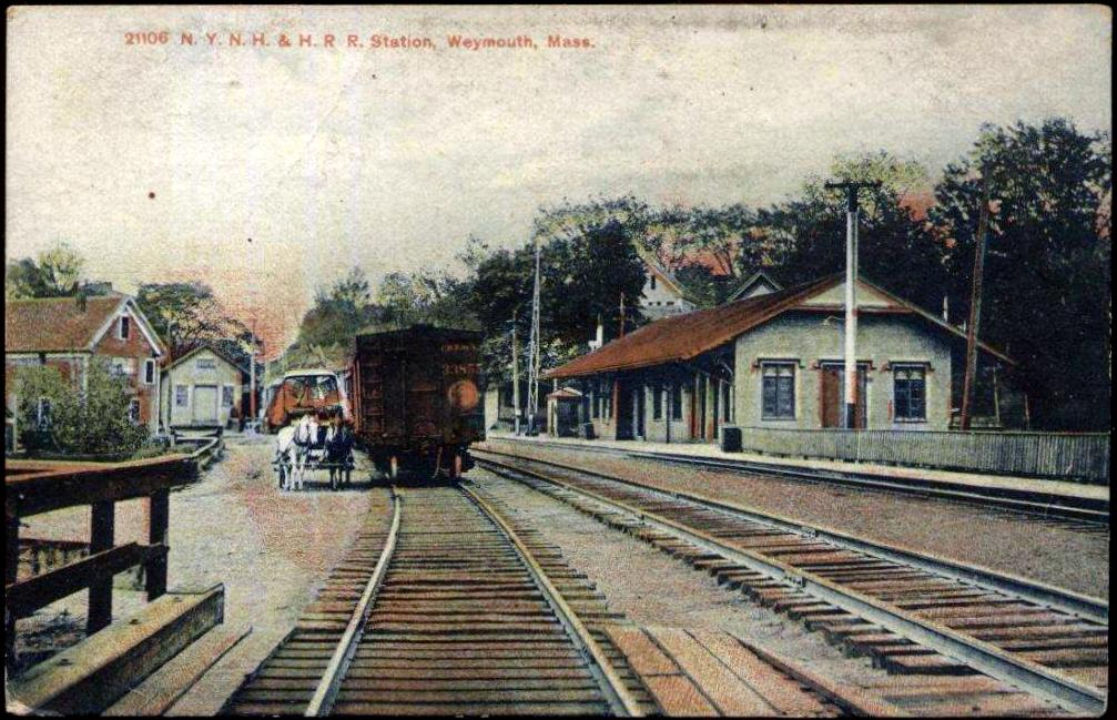 Early divided back postcard of Weymouth station